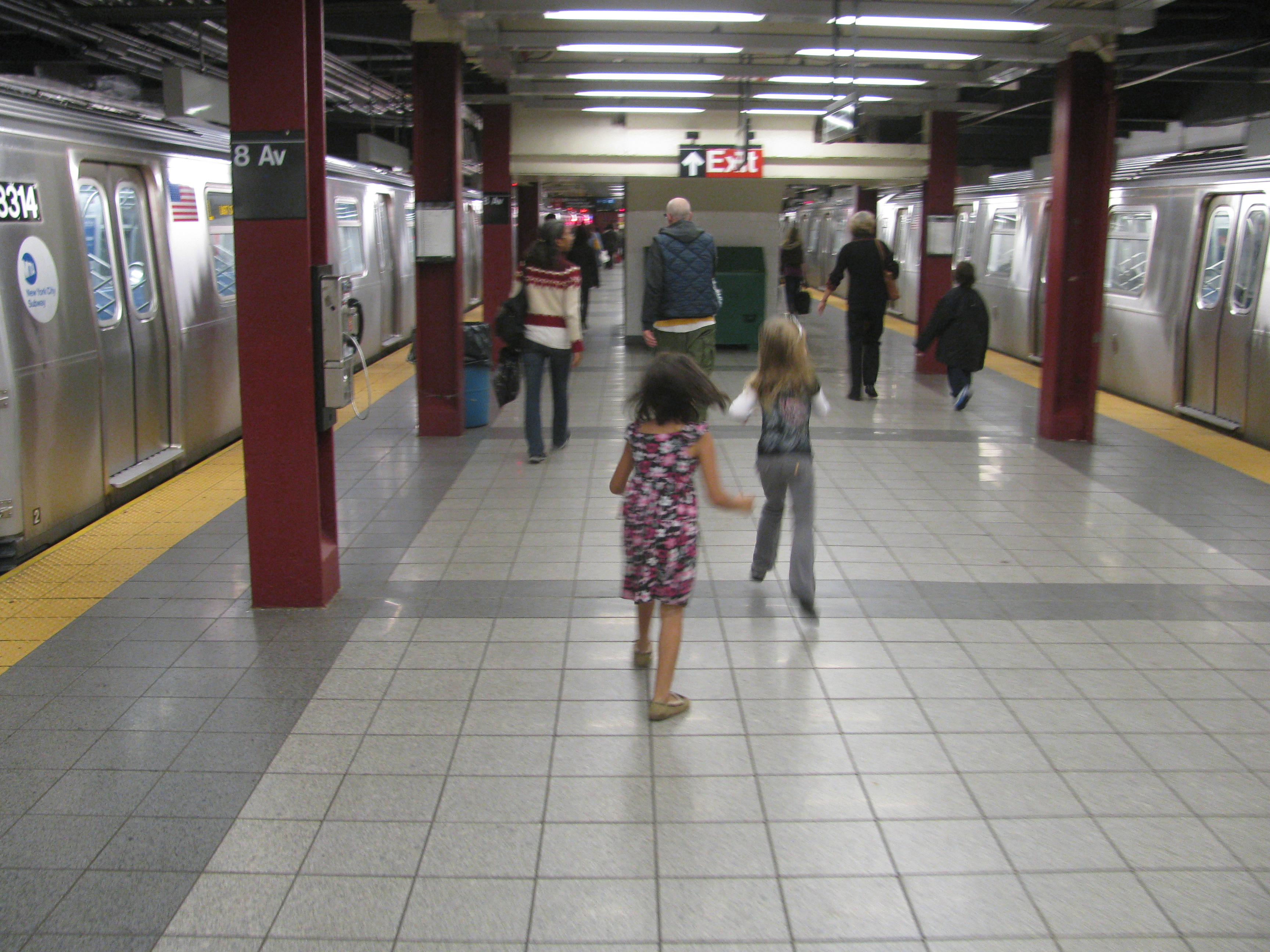 Eden and Lily following Janine and Dennis through the 8th Avenue stop on the L line on their way to the Big Apple Circus.